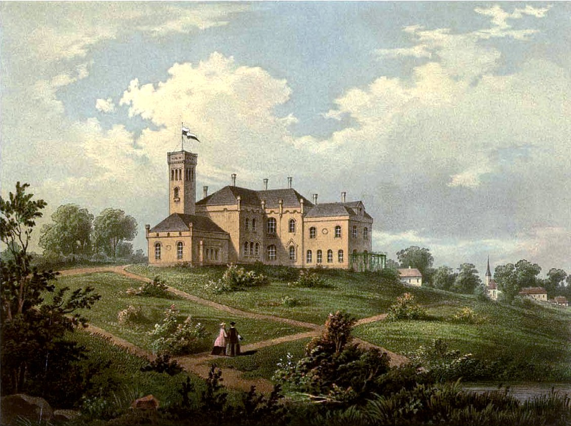 Manor in Suliszewo